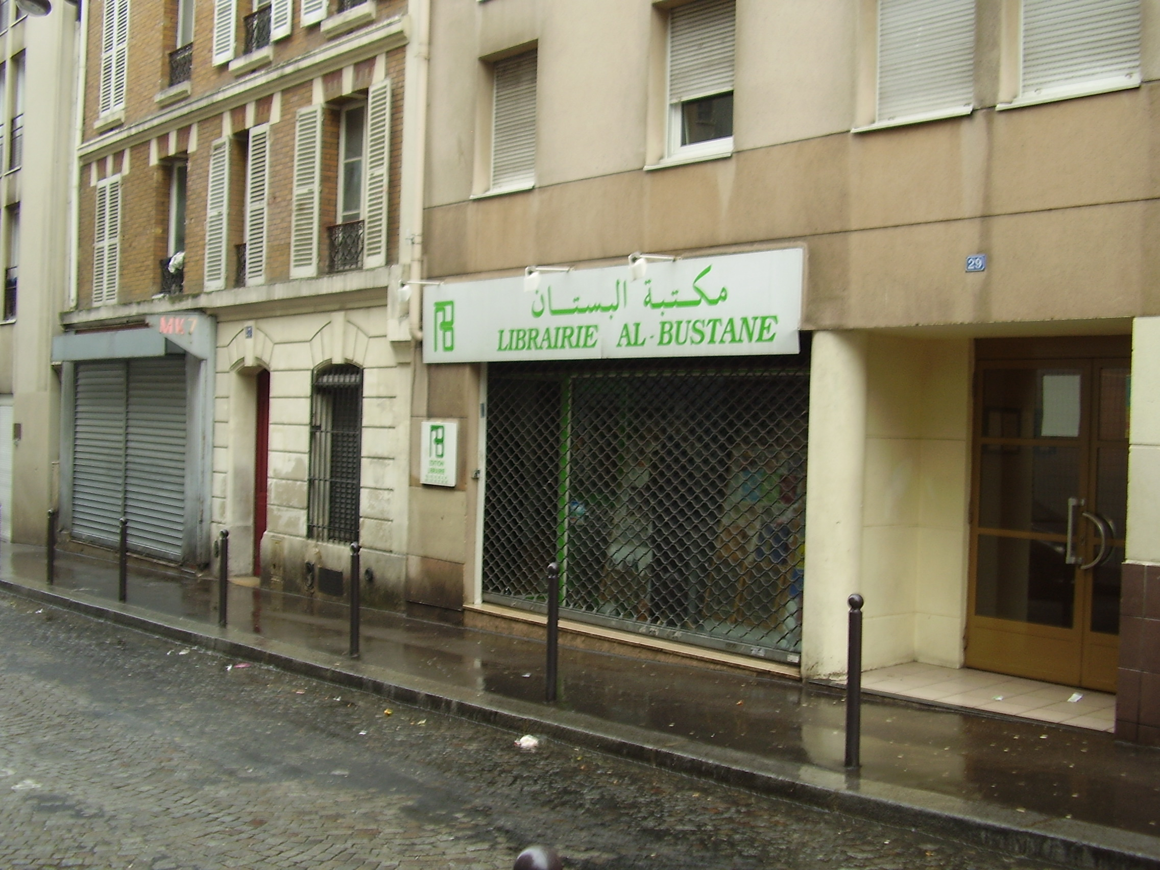 Librarie Al-Bustane ("Al-Bustane Bookshop") - 29, rue Chartres 75018 18th arrondissement, Paris France